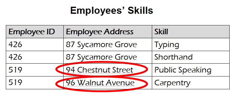 Example of a relational database table that suffers from an update anomaly.